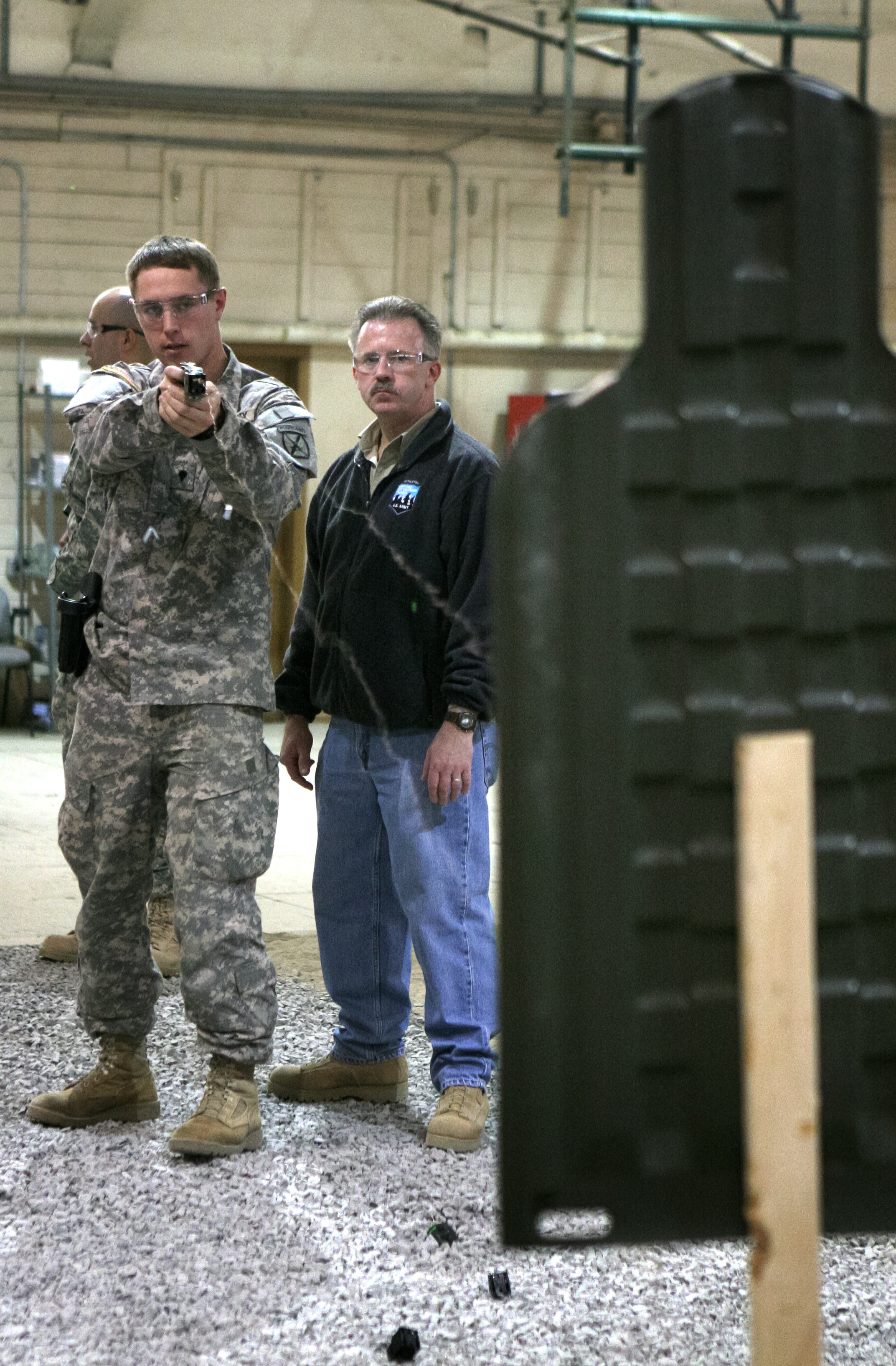 Jeff Teats, right, a non-lethal weapons instructor, observes Army Spc. Yevgeniy Popov, a chemical warfare specialist with Headquarters and Headquarters Company, 3rd Special Troops Battalion, 3rd Brigade Combat Team, 10th Mountain Division, Fort Drum, N.Y., fire a tazer during non-lethal weapons training Nov. 19, 2008, at Fort Drum. Photo by Staff Sgt. Michael J. Carden. See more at Army.mil